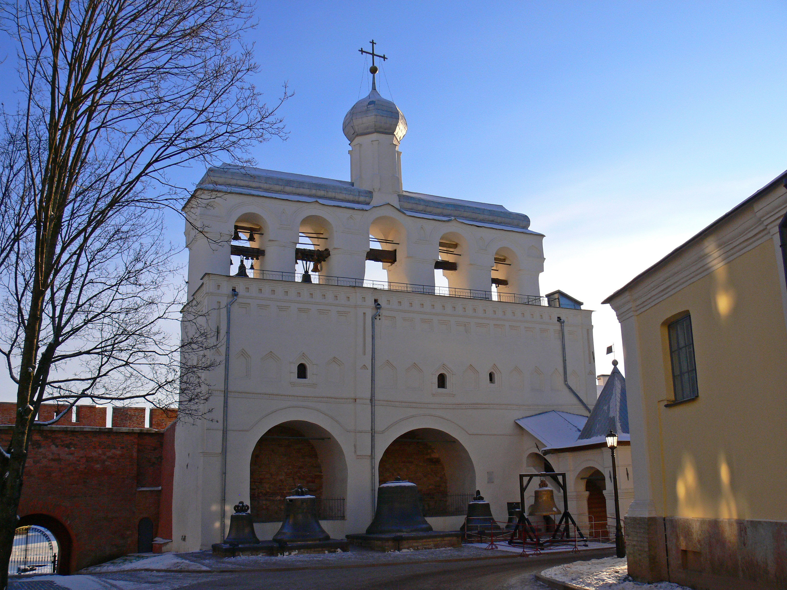 St. Blaise churche in Veliky Novgorod, Russia